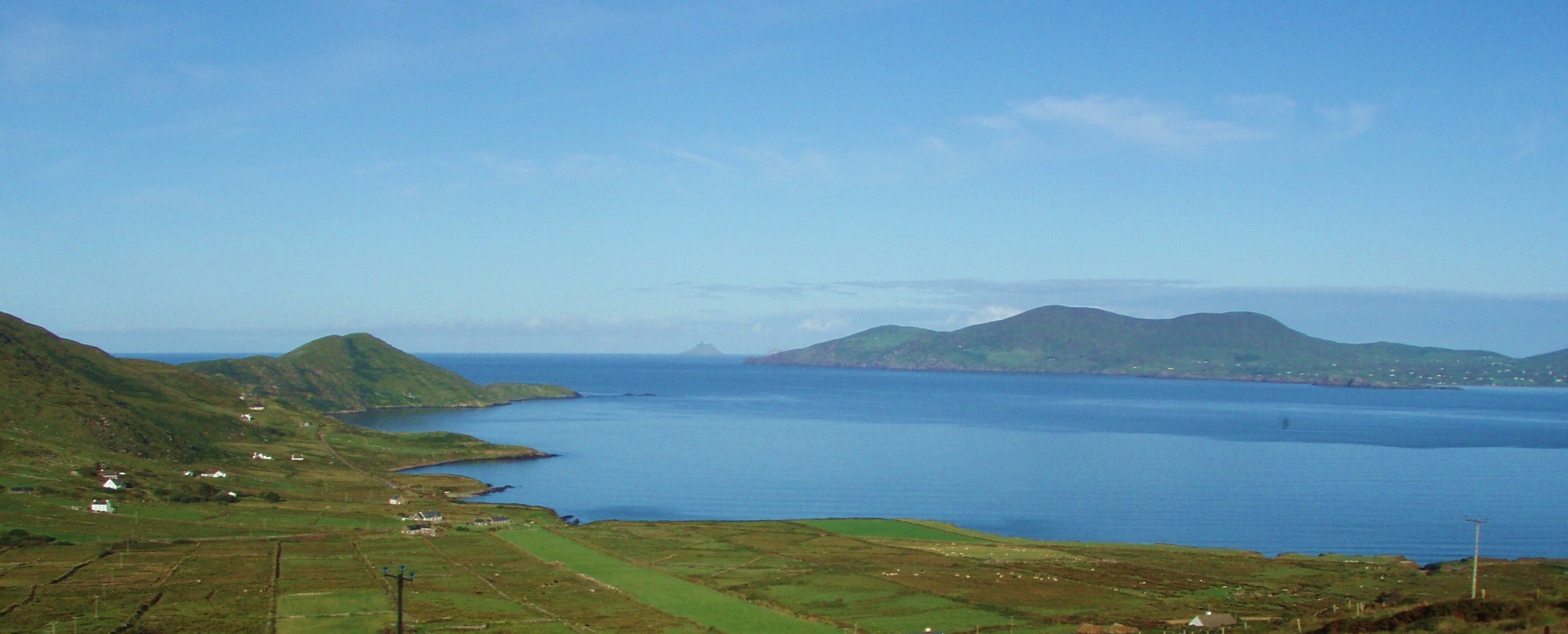 The changing colours noted by Lord Macaulay and made famous as 'forty shades of green' by Johnny Cash